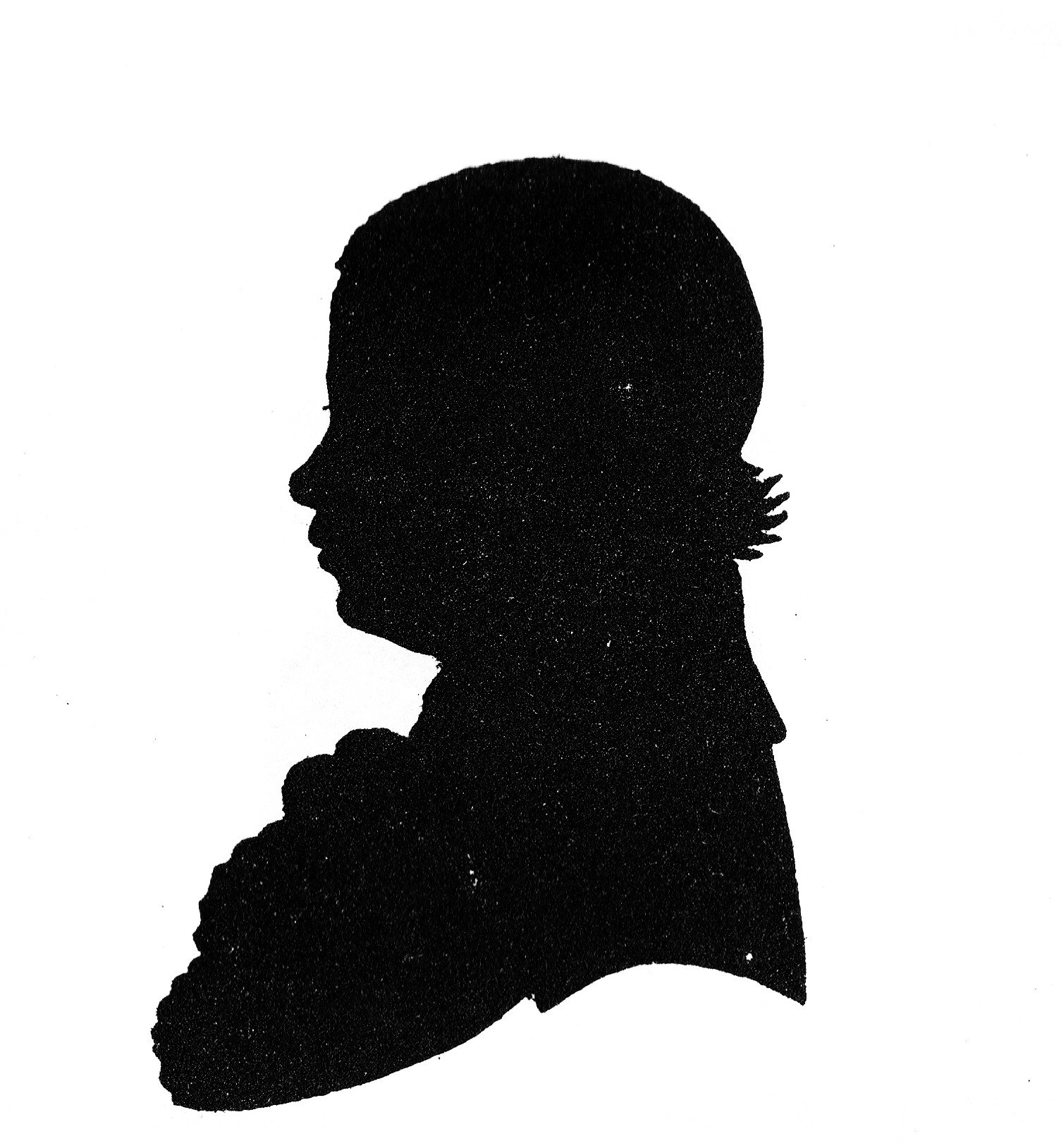 Jan de Vicq Tholen (1761-1809), revolutionary politician in Franeker (NL) and medical doctor in Husum (DE)